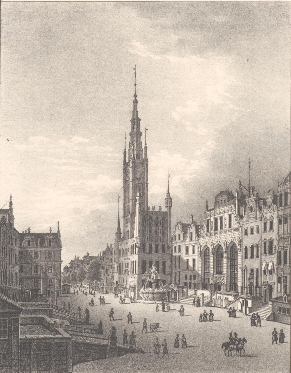 Main Town of Gdańsk Long Market Square in 1838.